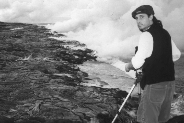 Kent Tate filming the active lava flows in the Hawaii Volcanoes National Park on the Big Island of Hawaii, Hawaii USA